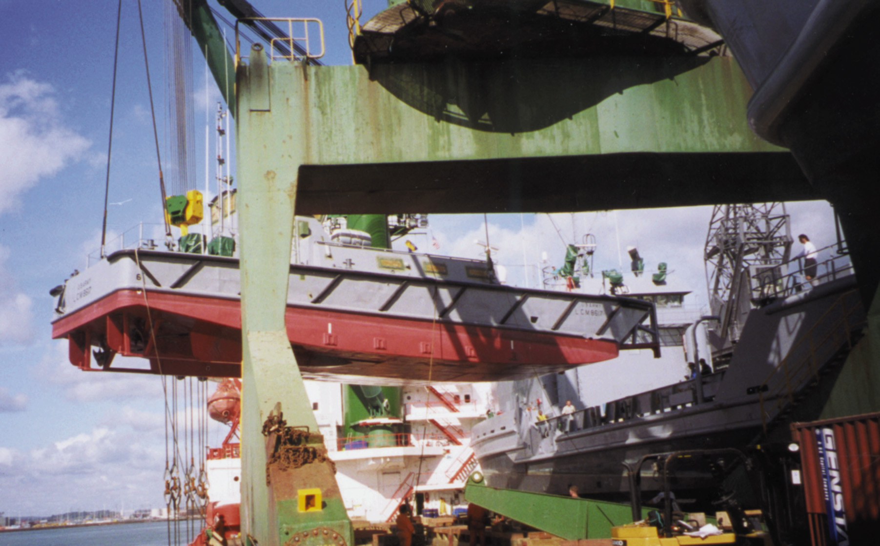 The bow of an LCU 2000 is brought over the forward port side of Strong Virginian.